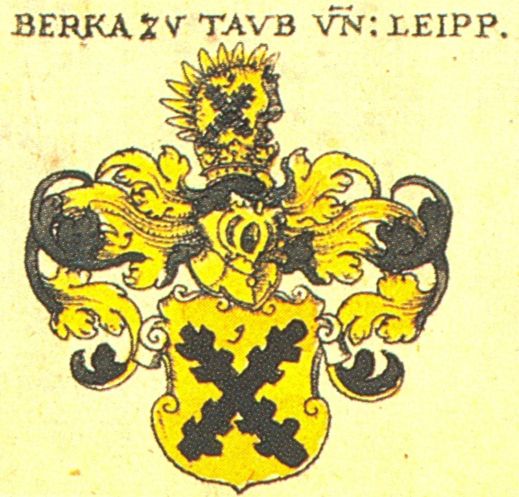 Coats of arms of Berkové z Dubé